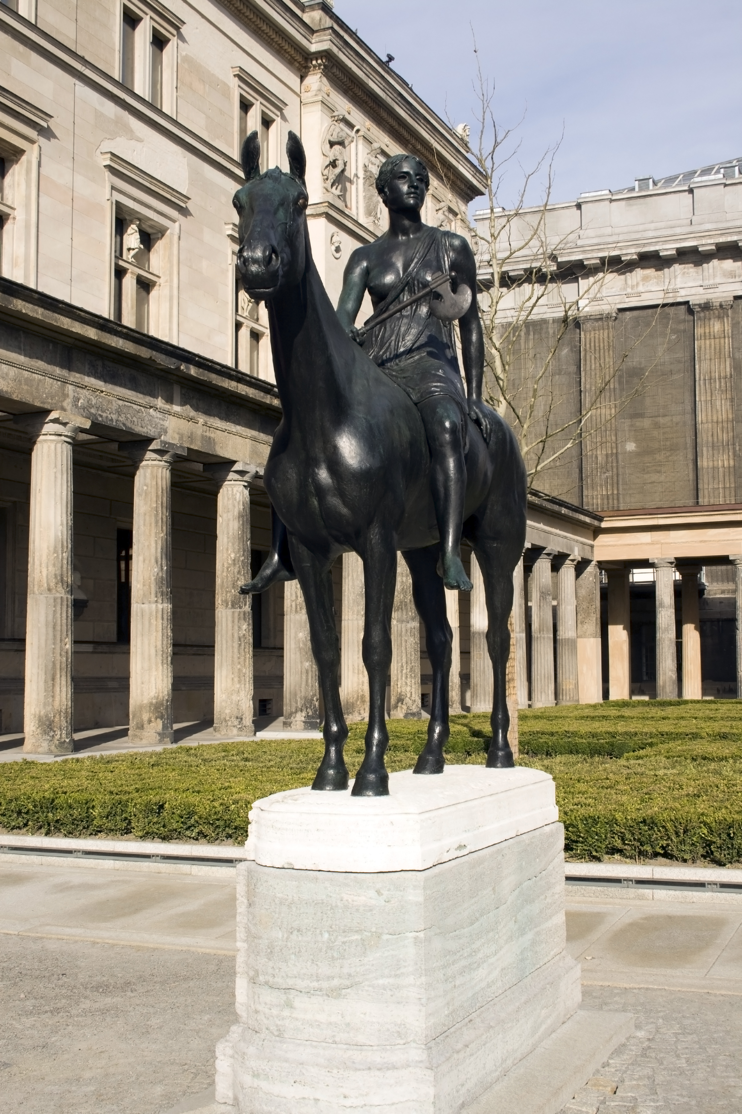 Sculpture before the eastern front of the Neues Museum, in the background the northern corner-risalit